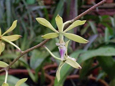 A work released per the GNU Free Documentation License by: Martín Javier Battiti de Tegucigalpa, Honduras